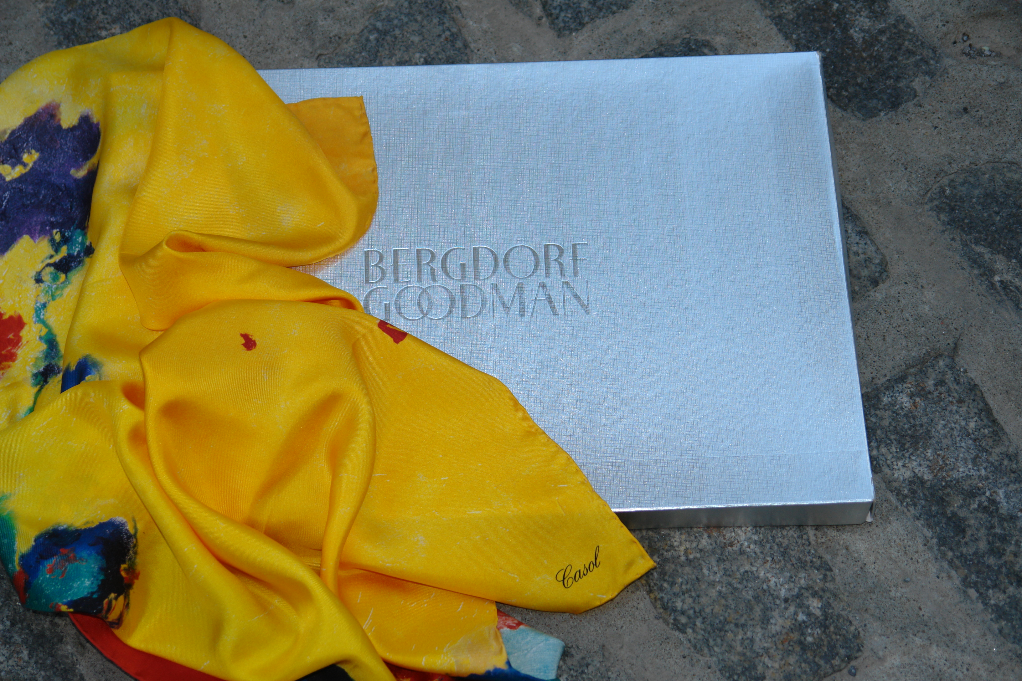 Square silk scarf Melodia Gitana by French designer Maryse Casol on Bergdorf Goodman gift box. Melodia Gitana - Casol square silk scarf - 35" x 35" - made in France - hand rolled.